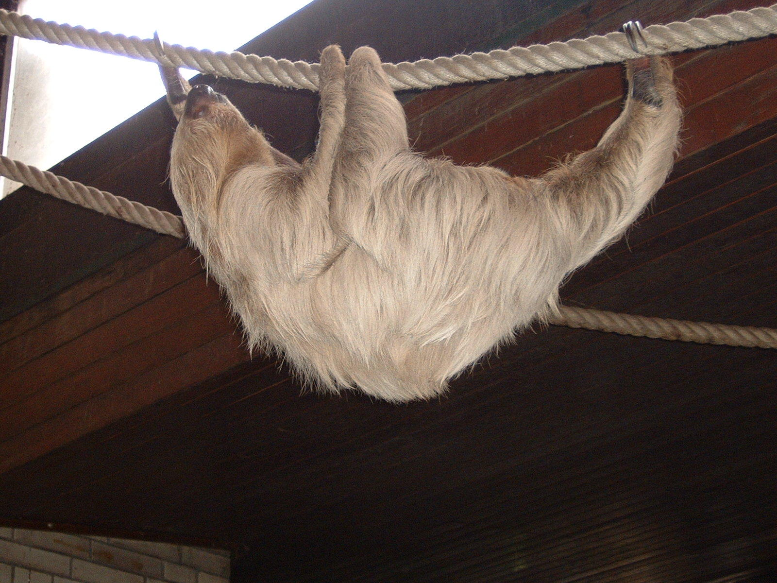 Linnaeus's Two-toed Sloth in Duisburg Zoo.